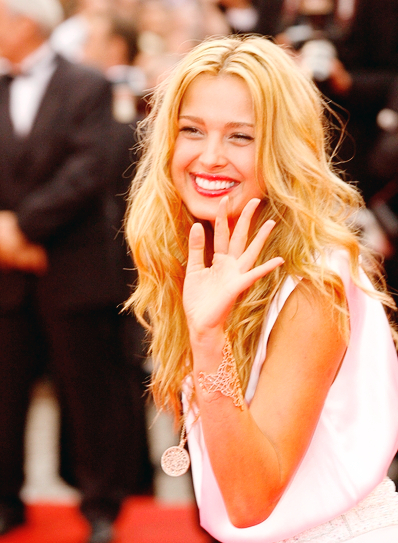 Petra Nemcova at Cannes in 2008